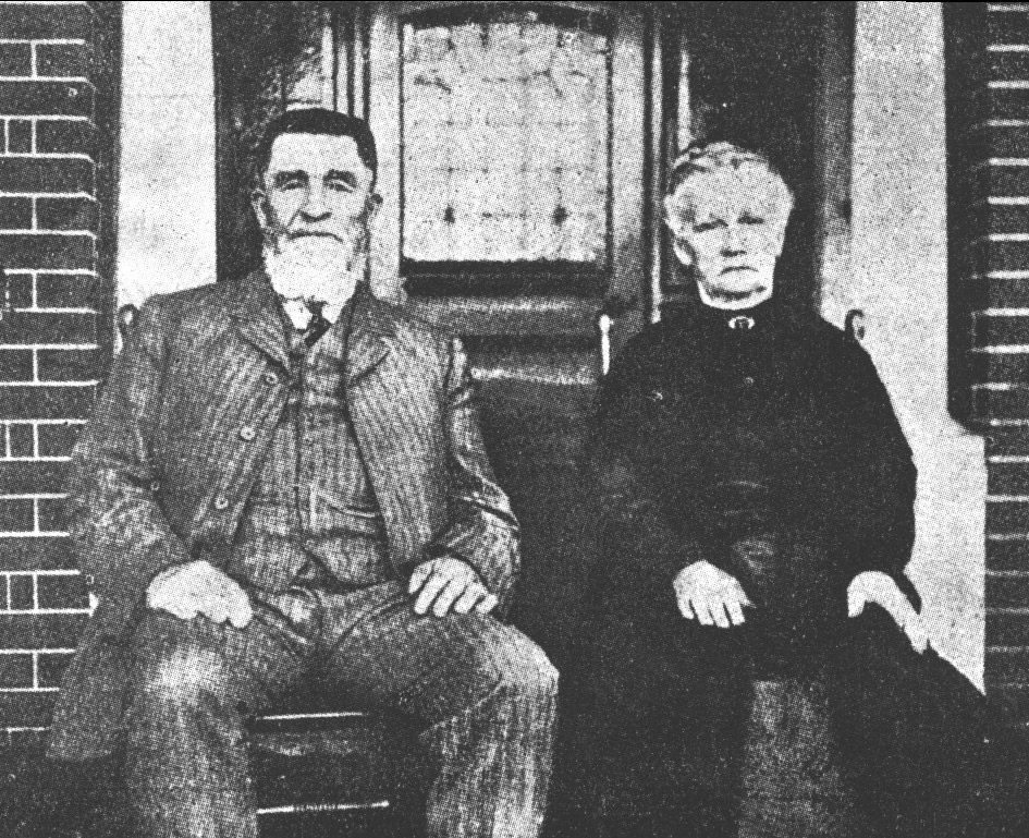 General C.R. de Wet and his wife, sitting in front of their house, 1917